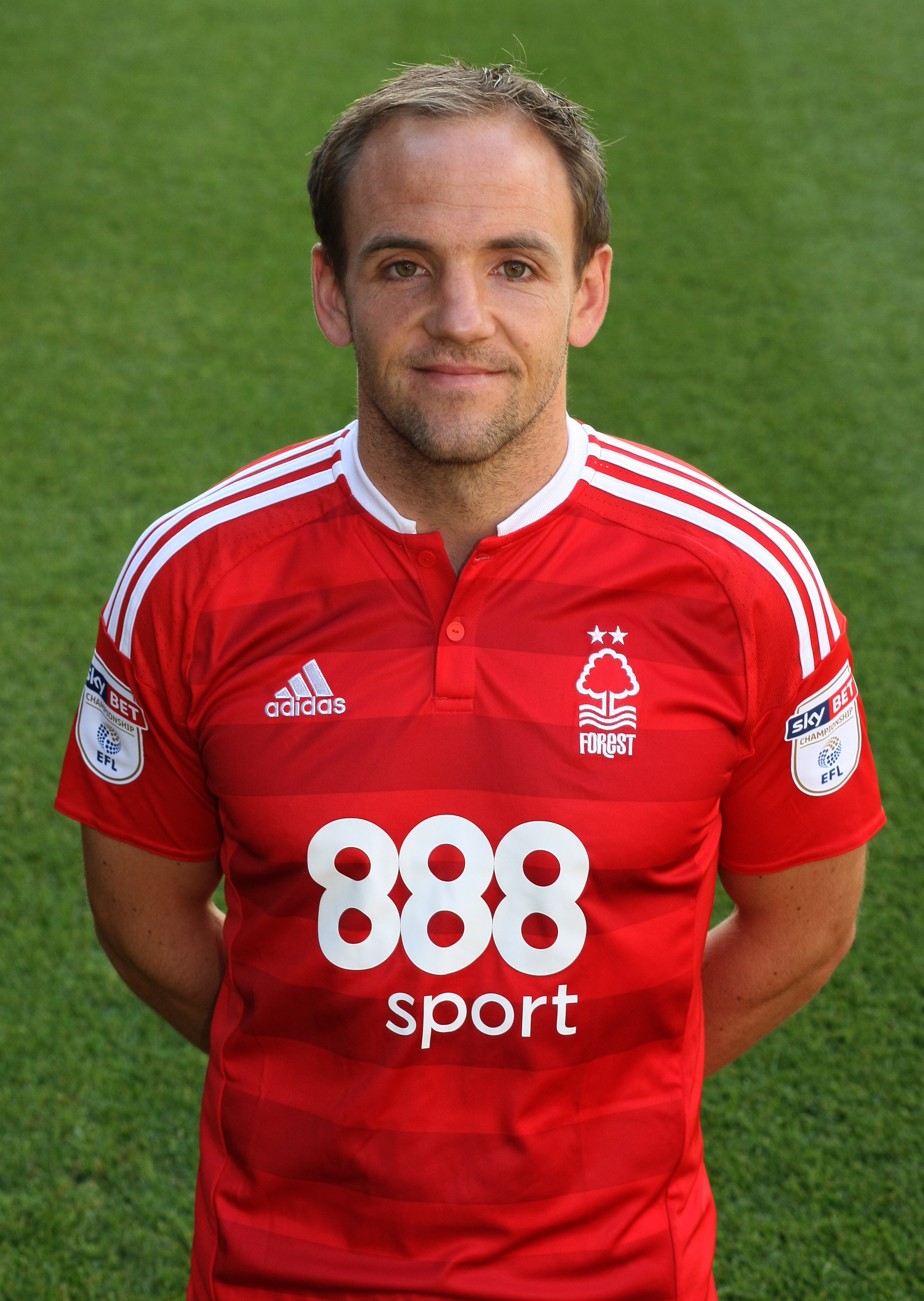 David Vaughan in Nottingham Forest kit, 2016